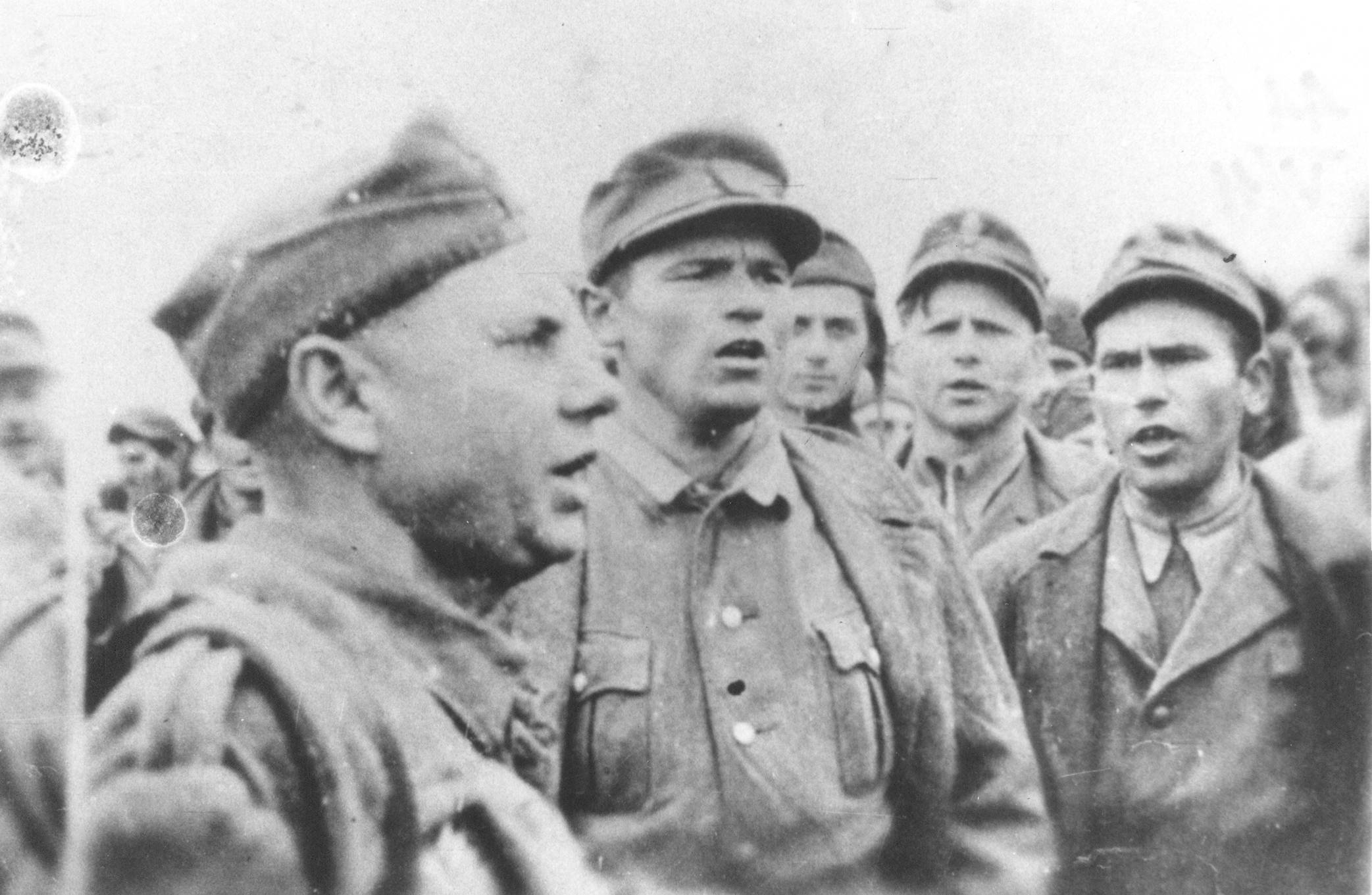 Partisans of the Russian company in the Second Macedonian partisan brigade